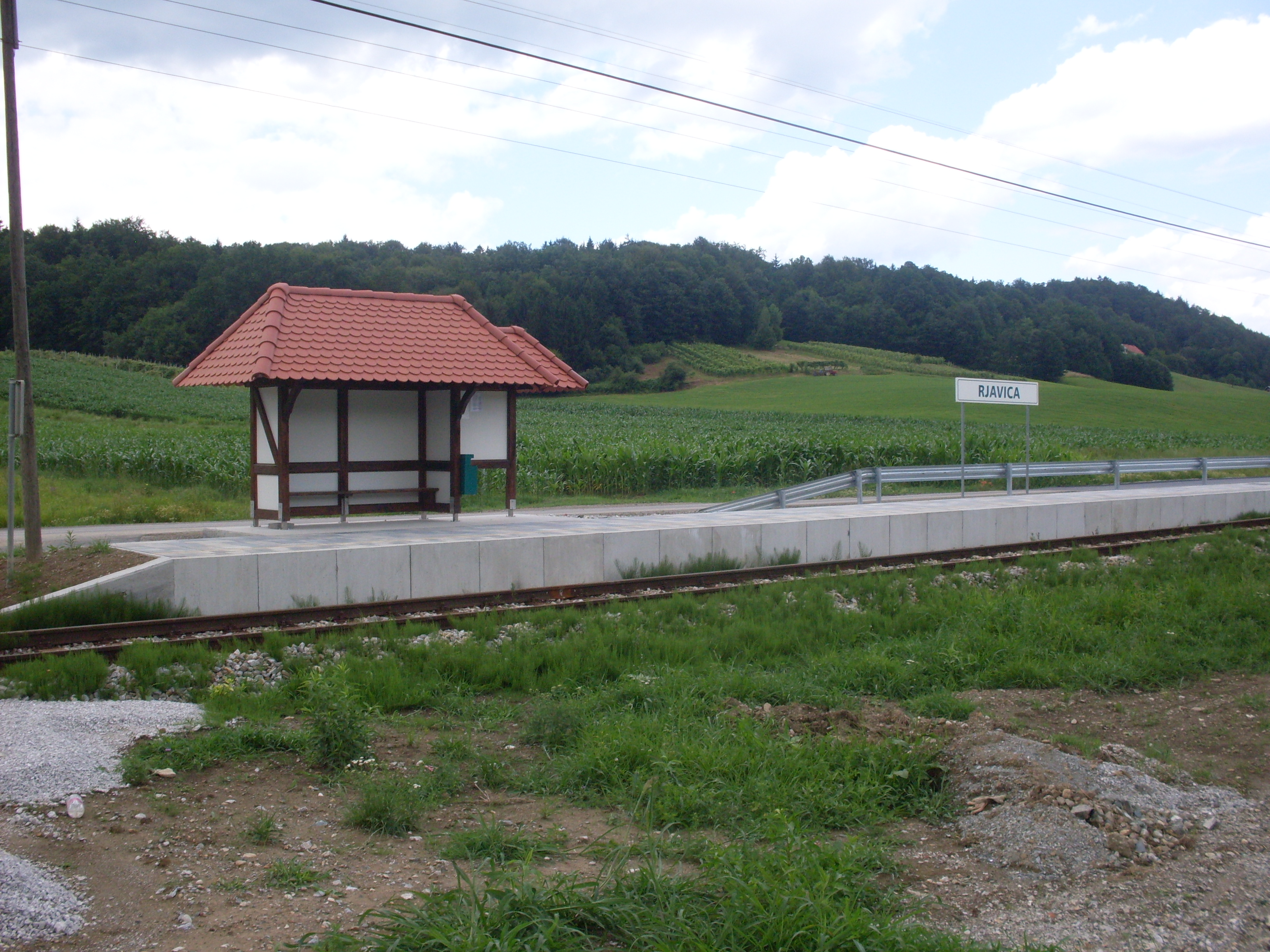 Railway halt in RjavicaSlovenščina: Železniško postajališče Rjavica